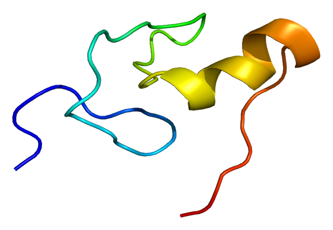 Structure of the GATA1 protein. Based on PyMOL rendering of PDB 1gnf.